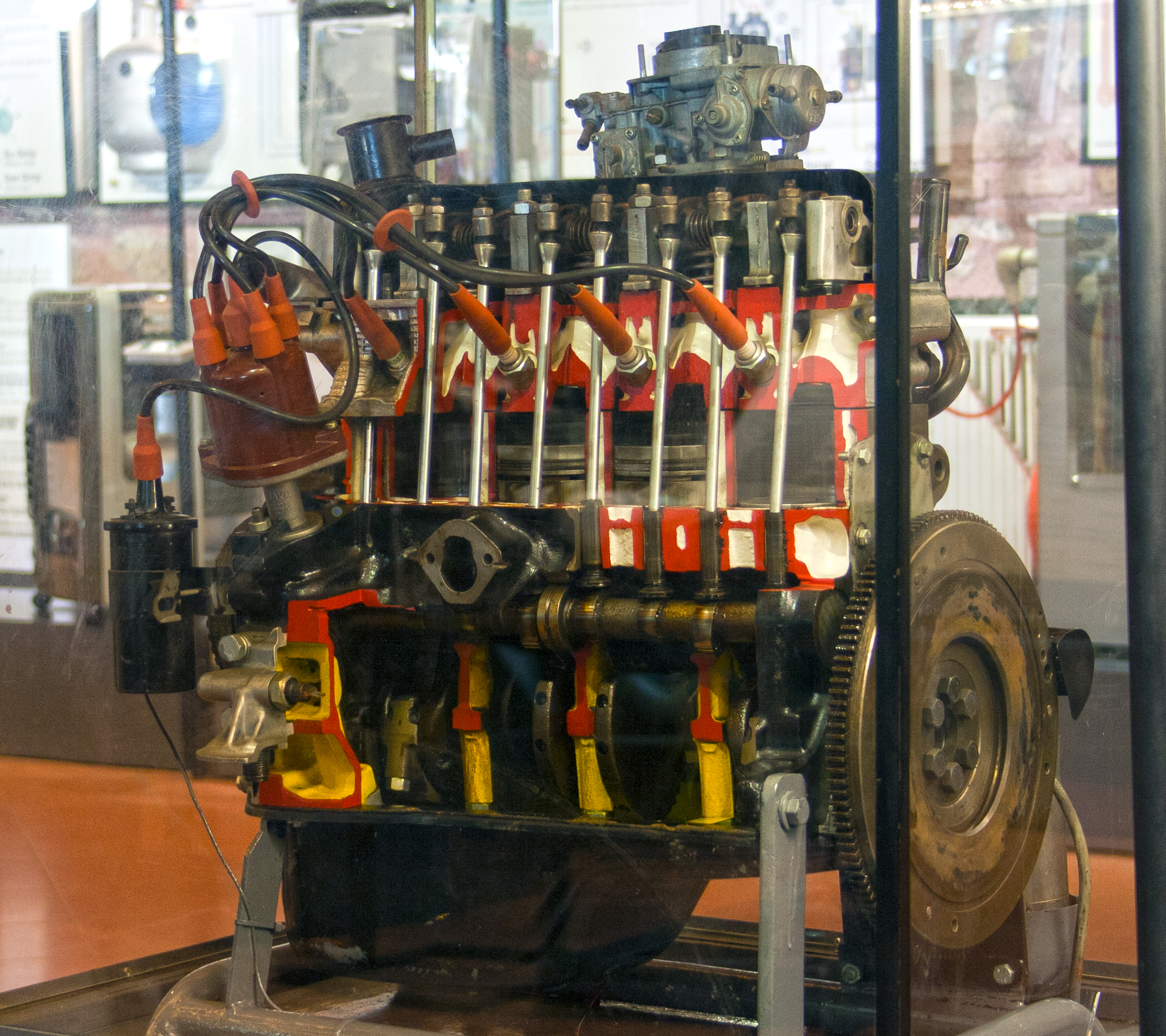 A cut up Tofaş-Fiat 131 A1.000 engine in the Rahmi M. Koç Museum of Transportation.